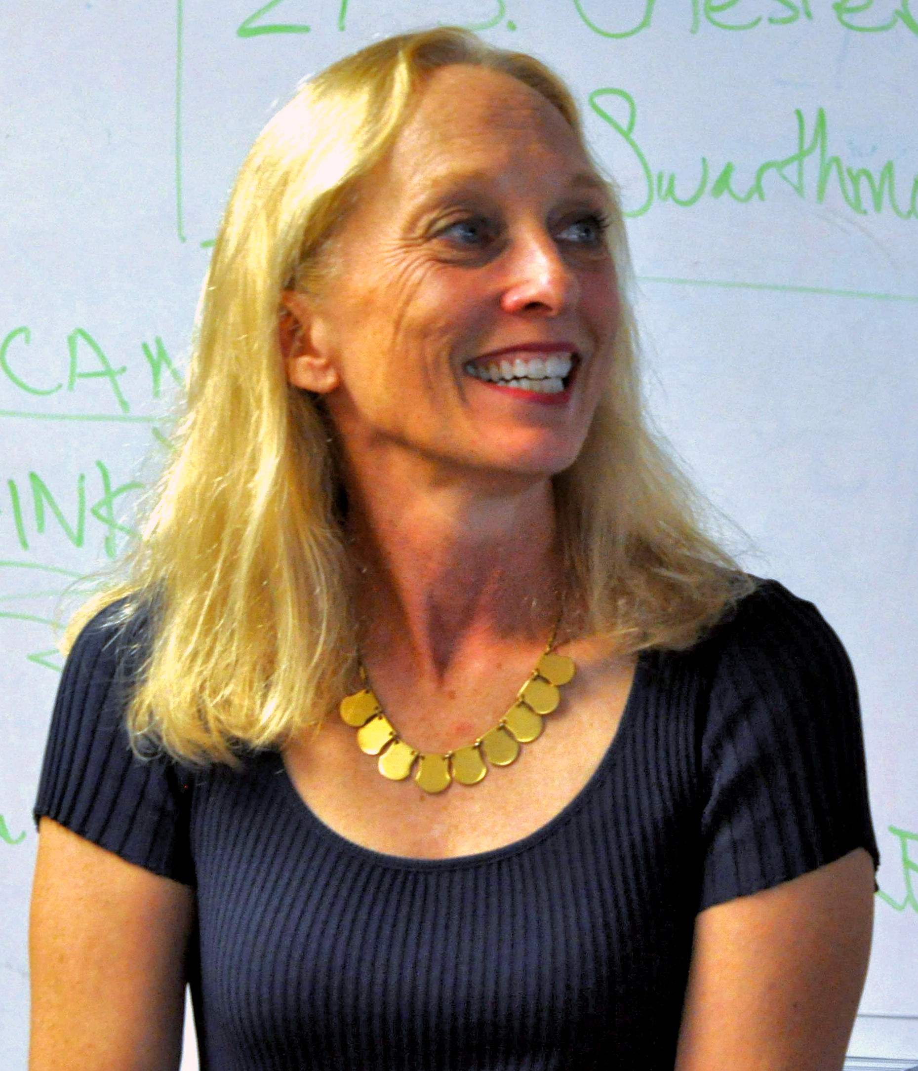 Democracy Summer, the organization Congressman Jamie Raskin created to recruit and train college and high school organizers went to Delaware County, PA to help elect Mary Gay Scanlon to Congress from the 5th District of Pennsylvania.